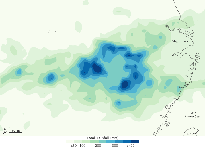 Heavy rains had already pushed many lakes and rivers in the Yangtze Valley close to flooding by early July 2010, and rain kept falling. Global Times reported that 39 people had drowned along the Yangtze between July 8 and 13, and some 810,000 hectares of cropland had been destroyed. This color-coded image shows rainfall amounts around the city of Shanghai from July 6 to 12, 2010. The heaviest rainfall amounts—400 millimeters or nearly 16 inches—appear in dark blue. The lightest amounts—50 millimeters or less than 2 inches—appear in light green. The heaviest rainfall amounts occur west-southwest of Shanghai. The Yangtze River empties into the ocean just north of Shanghai, but the river’s route takes it through an area southwest of the city, including the area experiencing heavy rain. This image is based on data from the Multisatellite Precipitation Analysis produced at Goddard Space Flight Center, which estimates rainfall by combining measurements from many satellites and calibrating them using rainfall measurements from the Tropical Rainfall Measuring Mission (TRMM) satellite.